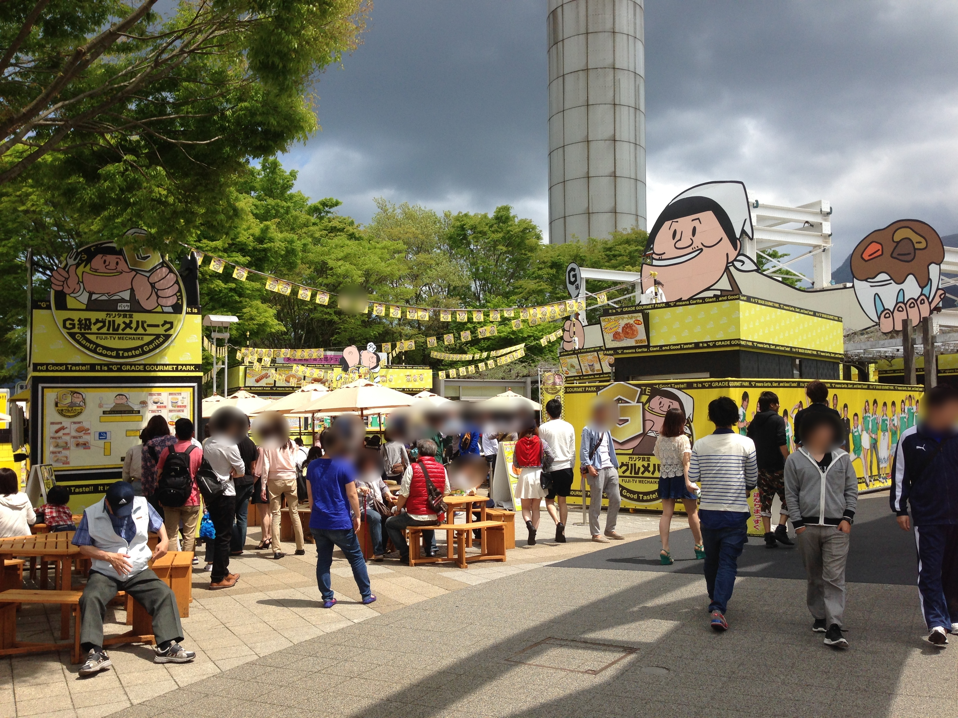 Garita is 明松功. ref1 ref2